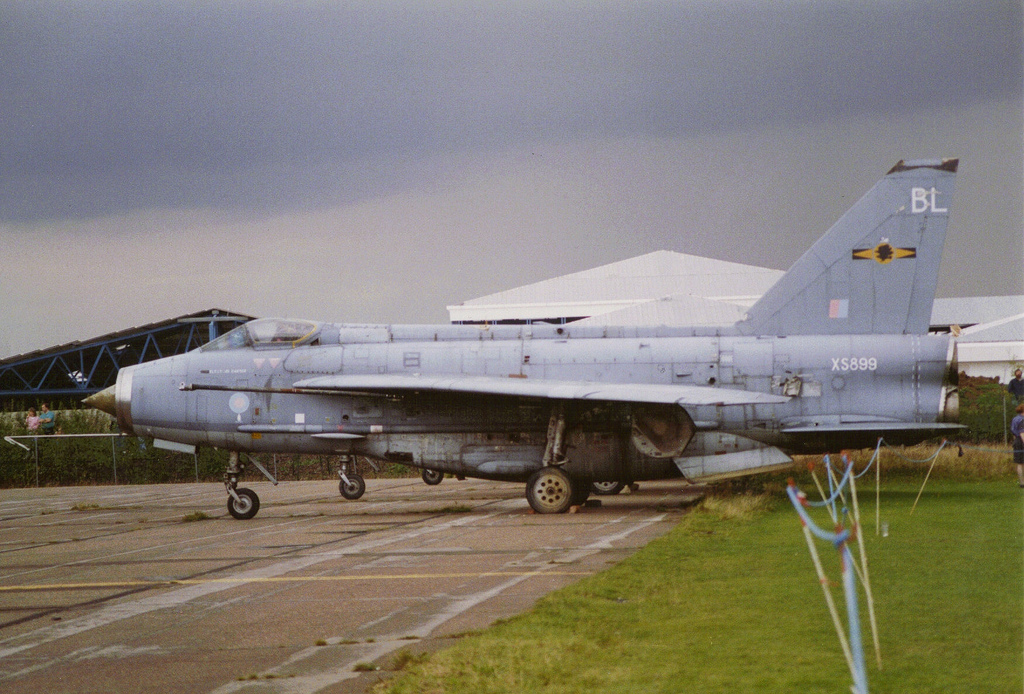 Photo of a BAC Lightning F Mk.6, at Cranfield in 1992. Airplane was XS899, built in 1966, was in service in No.5 Squadron RAF based at Binbrook unitl 1987. Than purchased by civilian. In 1994 at Cranfiled dismantled. The cockpit and nose moved to Coltishall. After Coltishall's closure these suirvived parts (cockpit and nose) moved to the City of Norwich Aviation Museum.